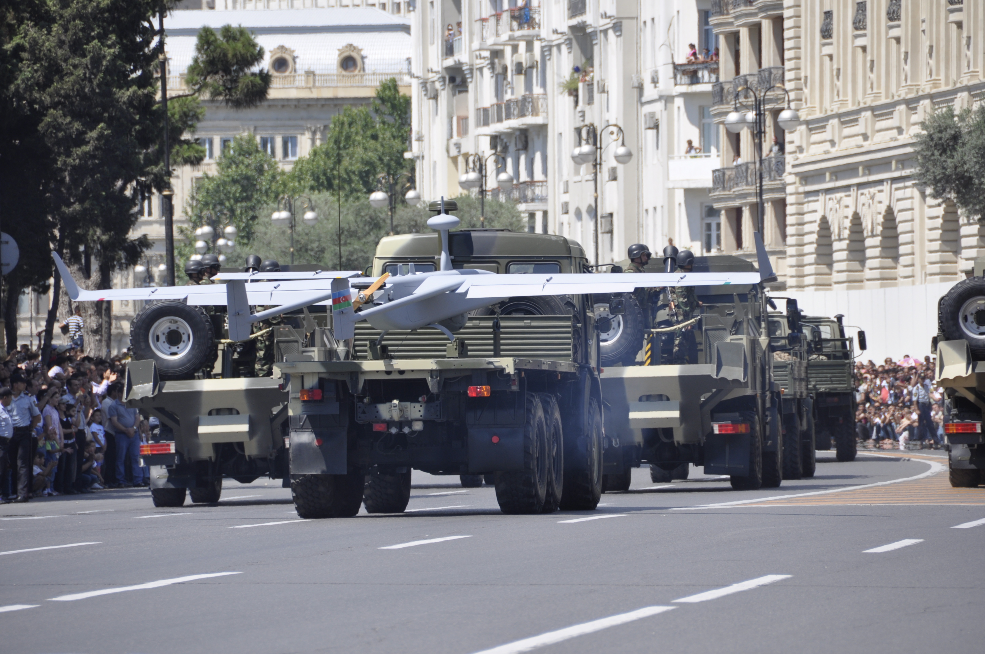 Military parade in Baku on an Army Day